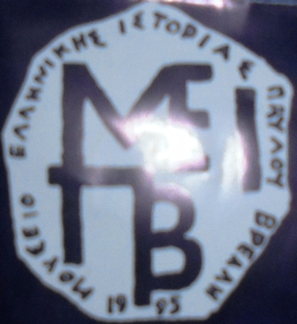 Greek History Museum's "Pavlos Pan. Vrellis" logo (Museum located in Ioannina, Greece)